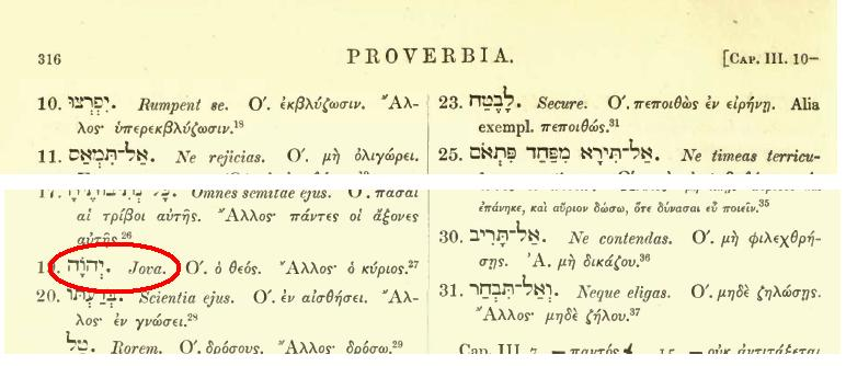 Excerpt from Origenis Hexaplorum, edited by Frederick Field, 1875, (page 316). "Jova", a Latin form of the Tetragrammaton is seen.